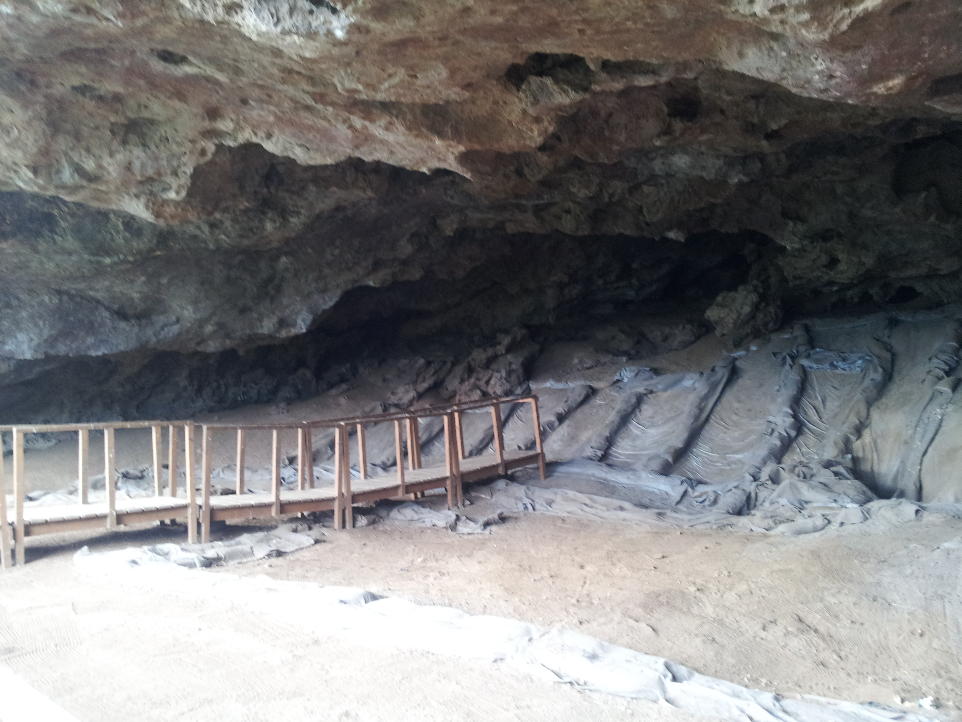 This media shows a South African Protected Site with SAHRA file reference 24684.